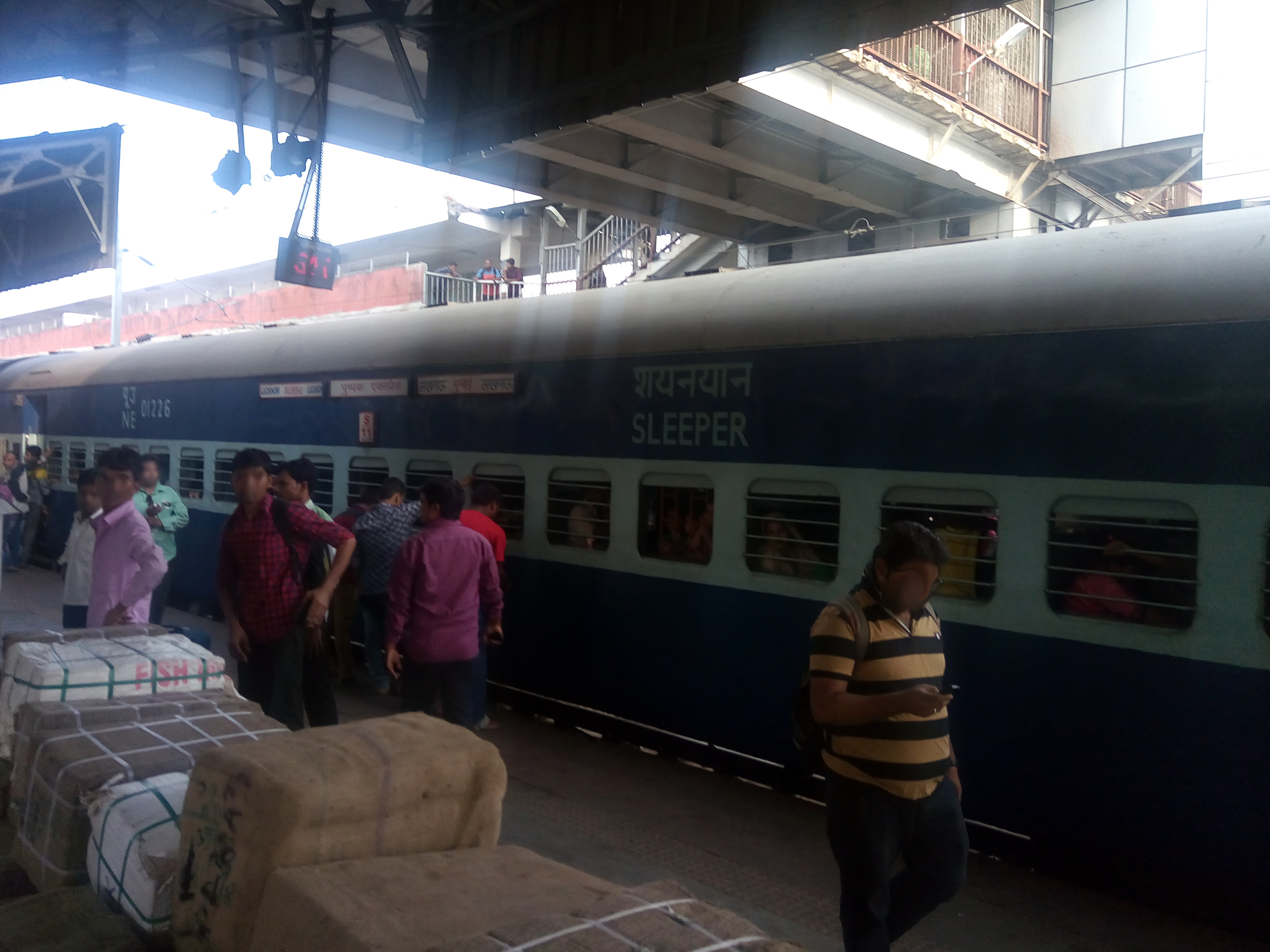 12534 Pushpak Express